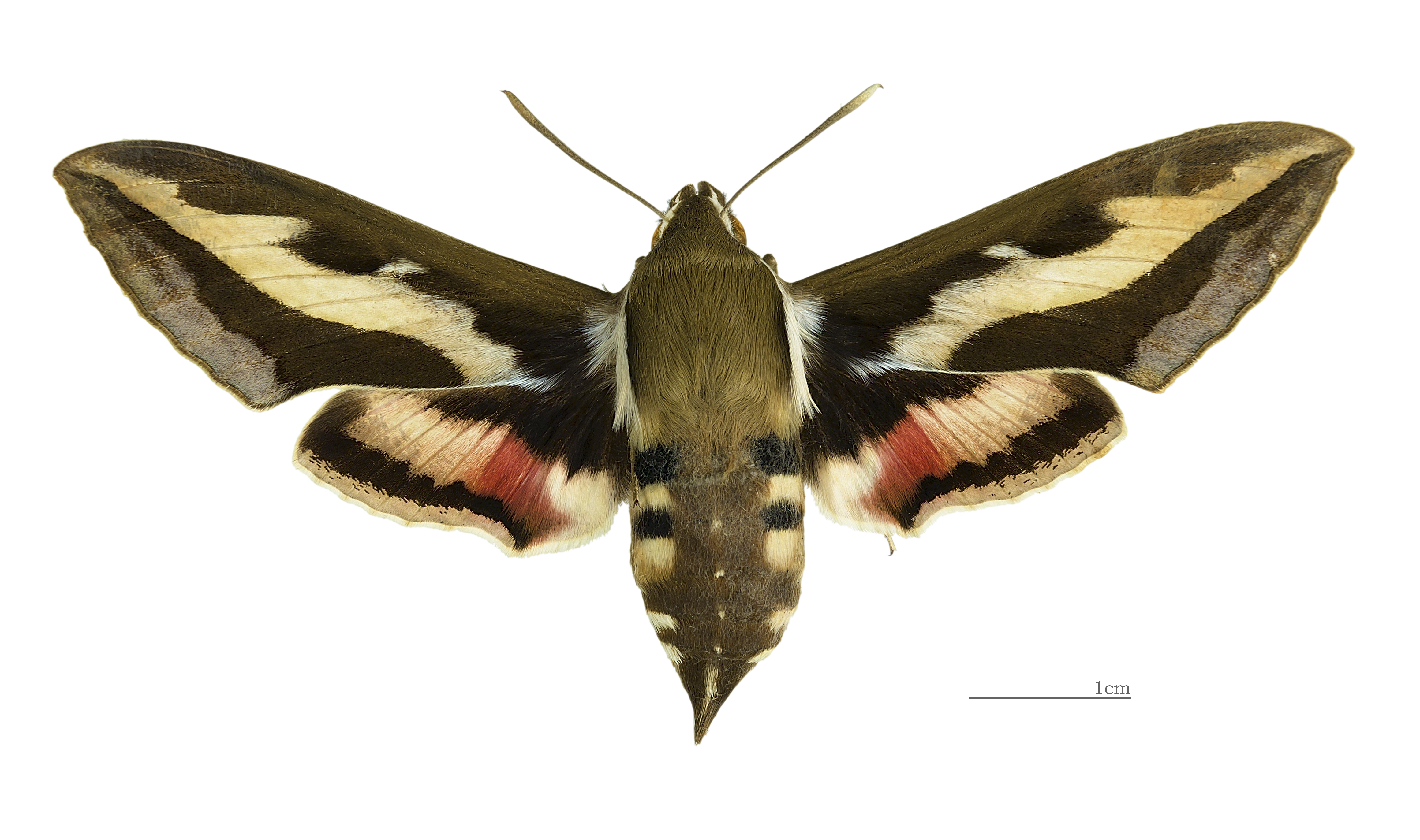 Bedstraw Hawk-Moth - Dorsal side